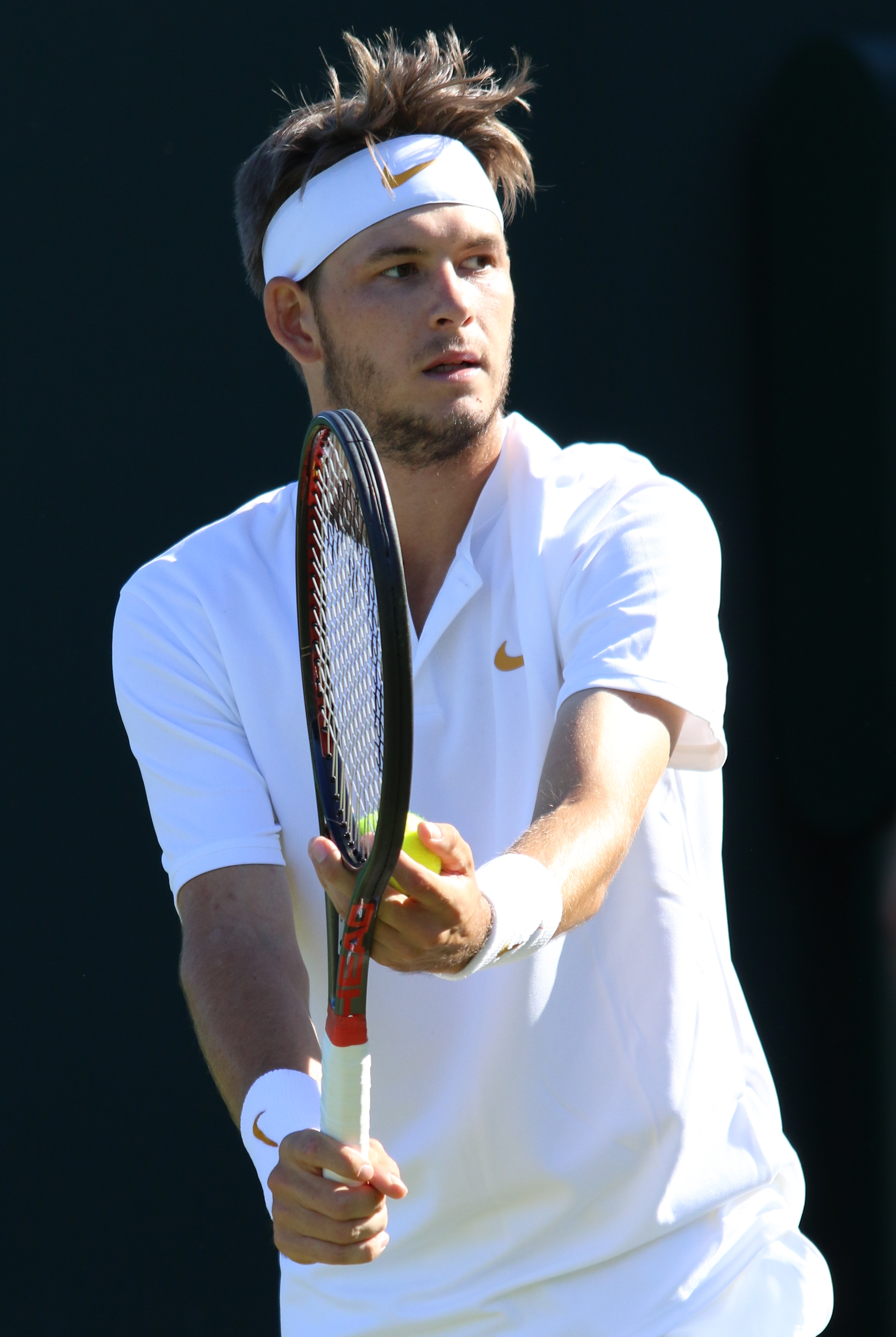 Donaldson WM18 (9)